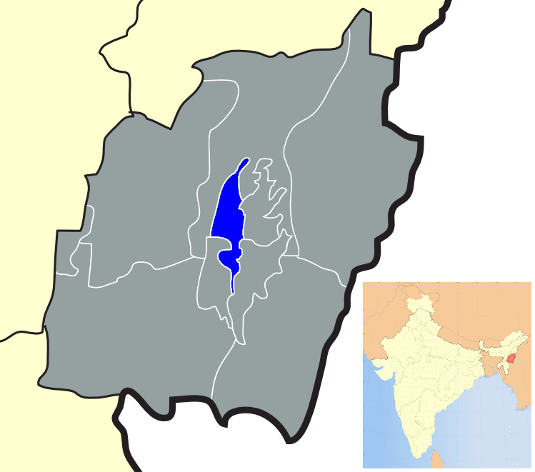 This is a retouched picture, which means that it has been digitally altered from its original version. The original can be viewed here: India Manipur locator map.svg.